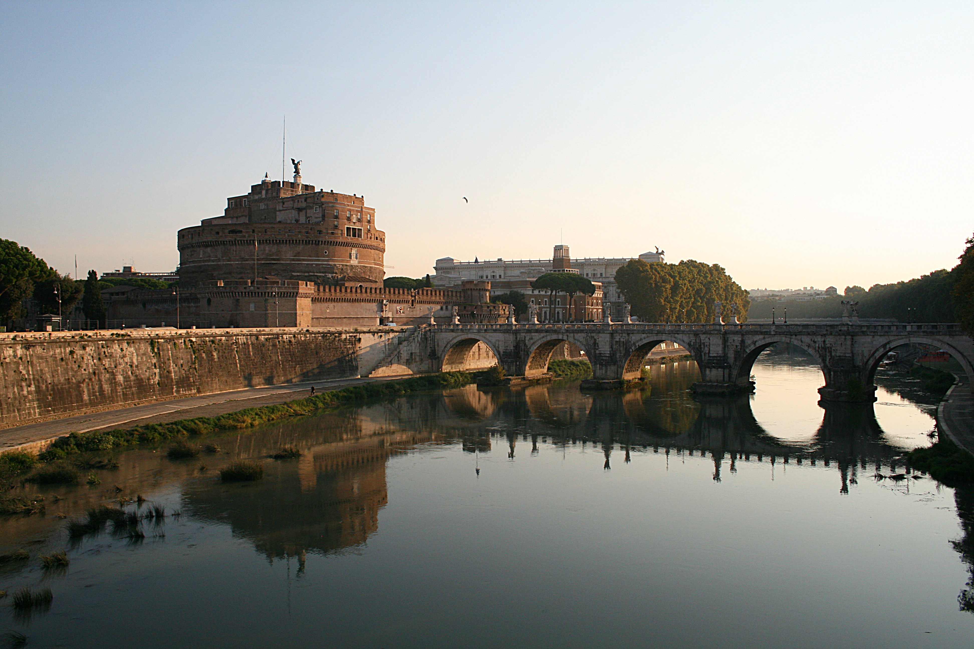 The Tiber, the bridge and the Castel Sant'Angelo in Rome, Italy.